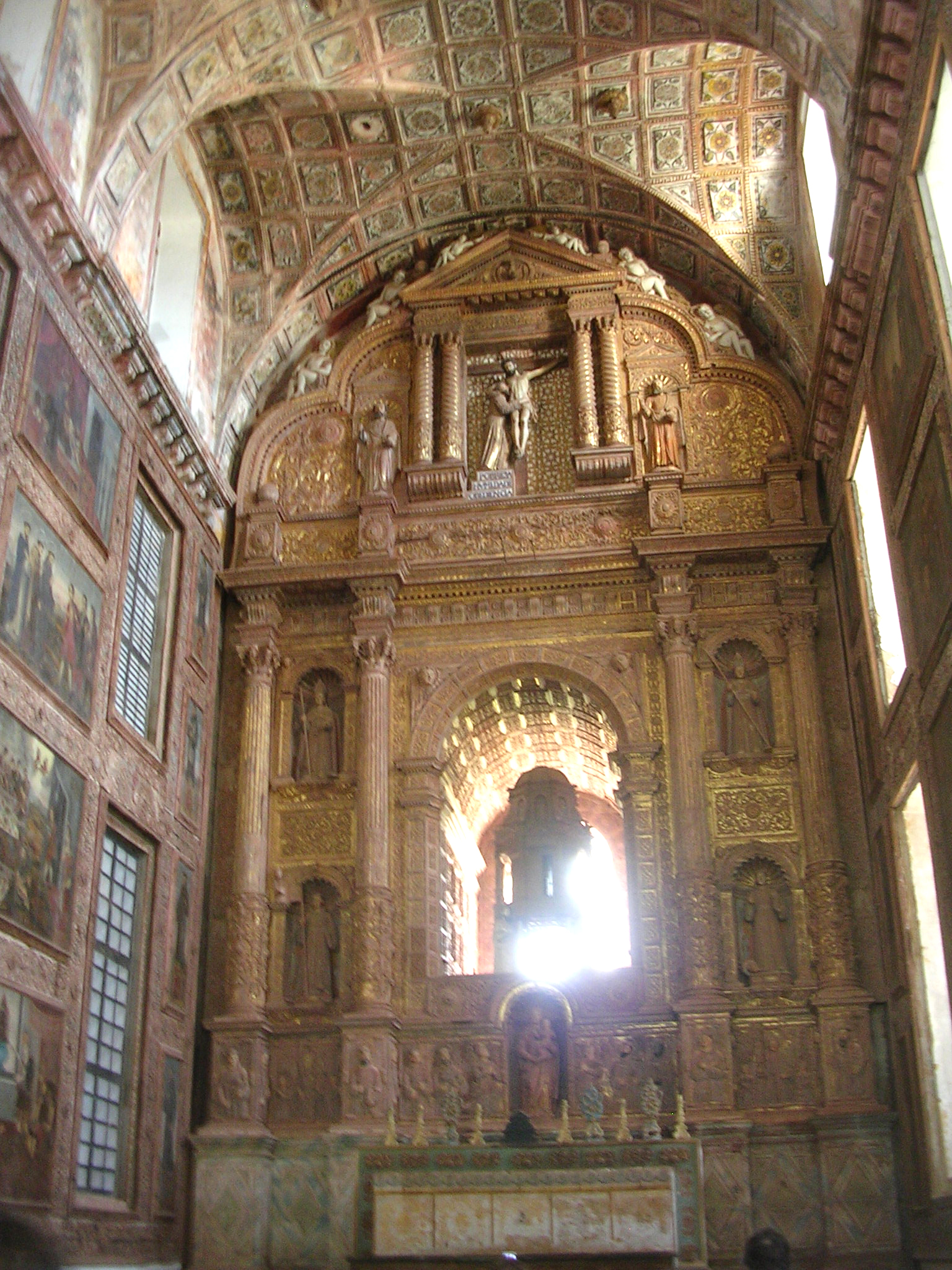 Interior of St Francis Church in Goa, India